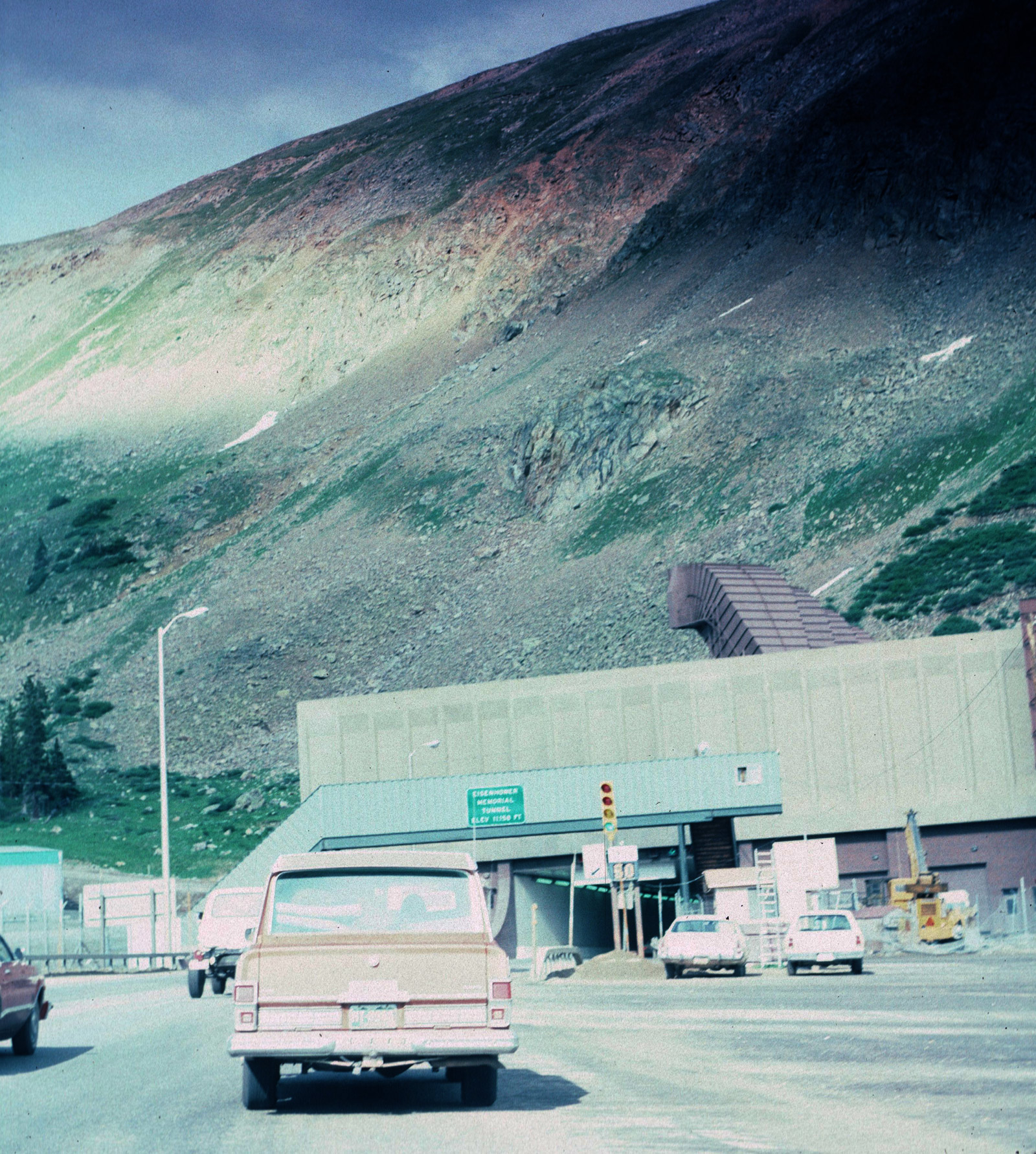 West Portal Eisenhower Tunnel (Highway I-70) summer 1978